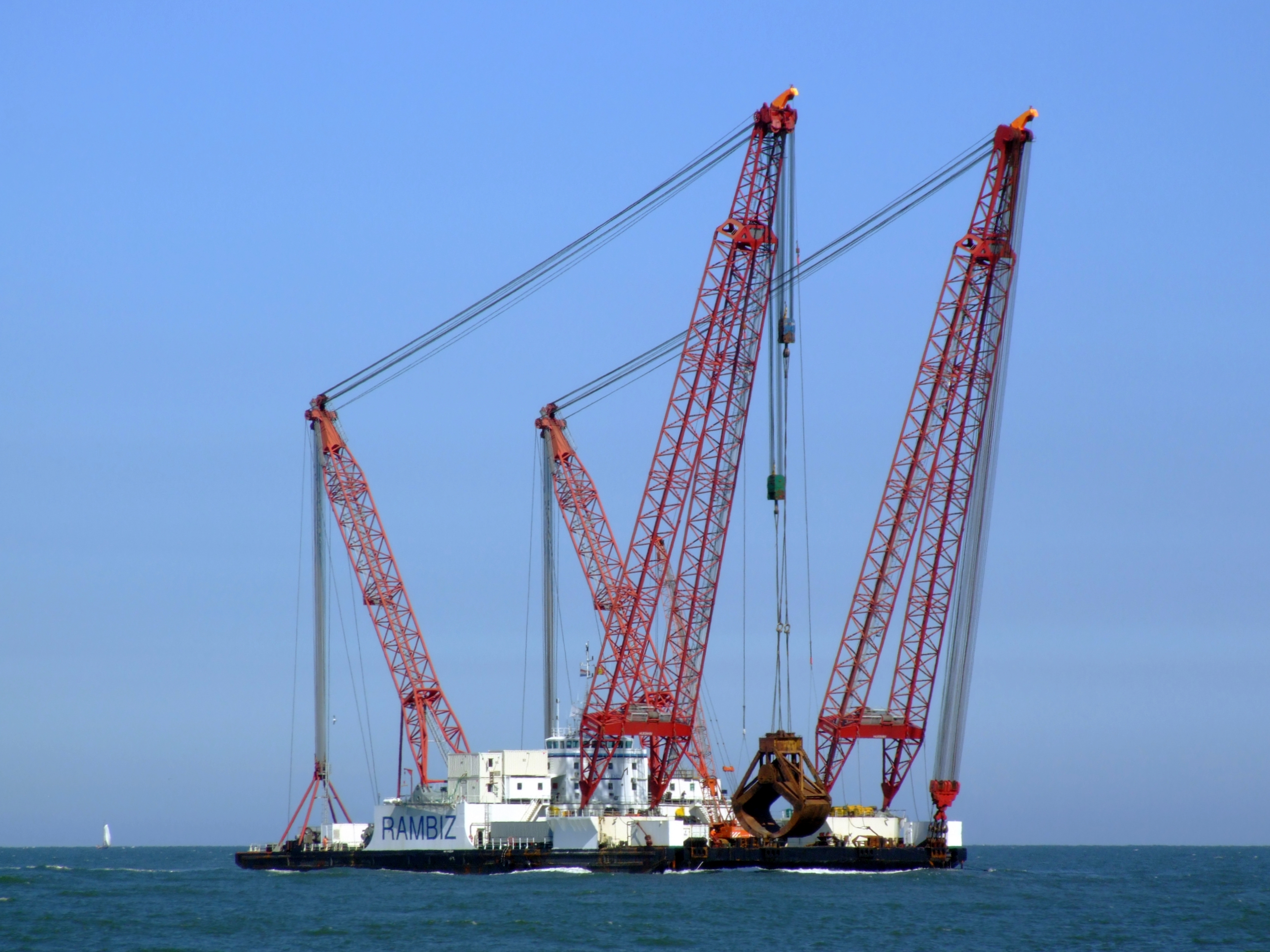 Photographed at the Port of Rotterdam, The Netherlands.